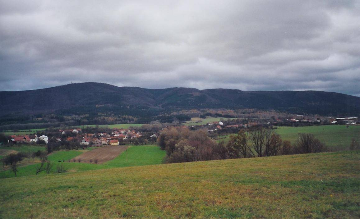 The Hostýnské vrchy hills and the village of Osíčko, Czech republic